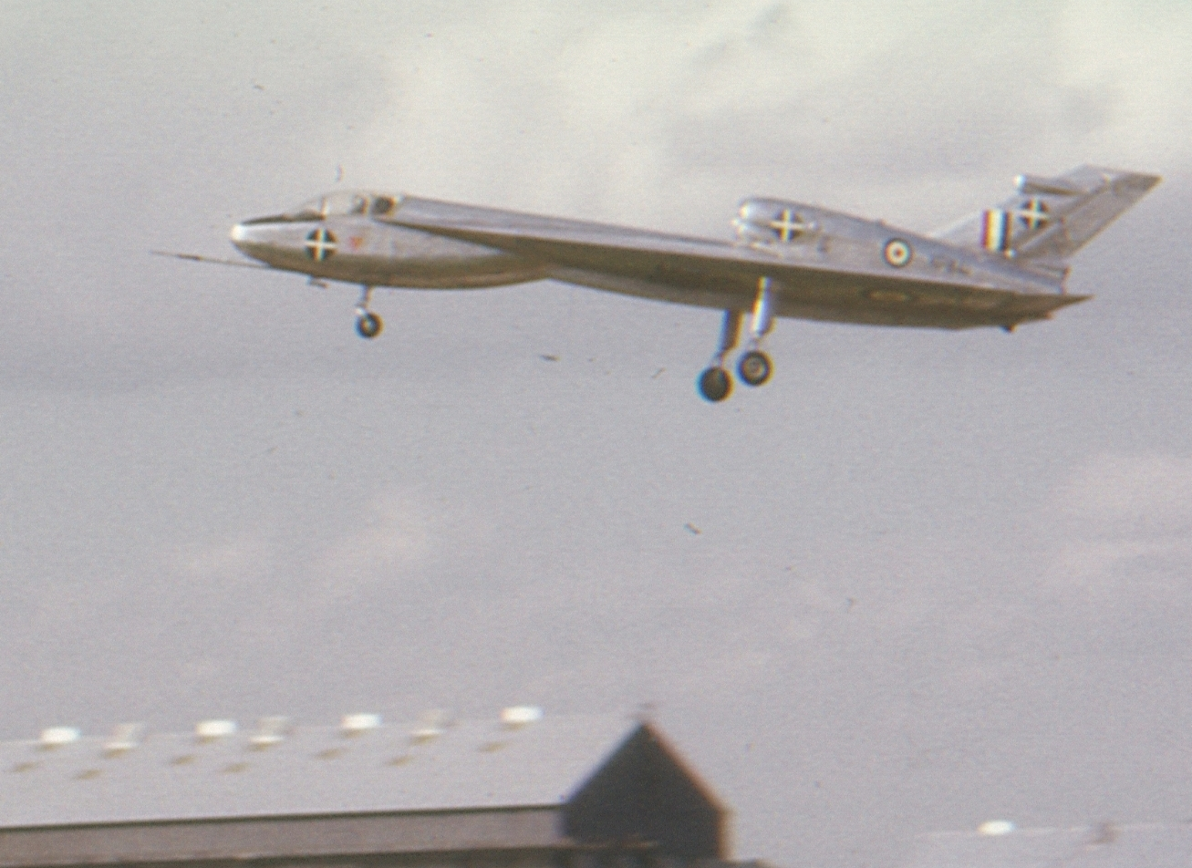 The Handley Page HP.115 research delta XP841 at the SBAC show Farnborough, 8 September 1962.